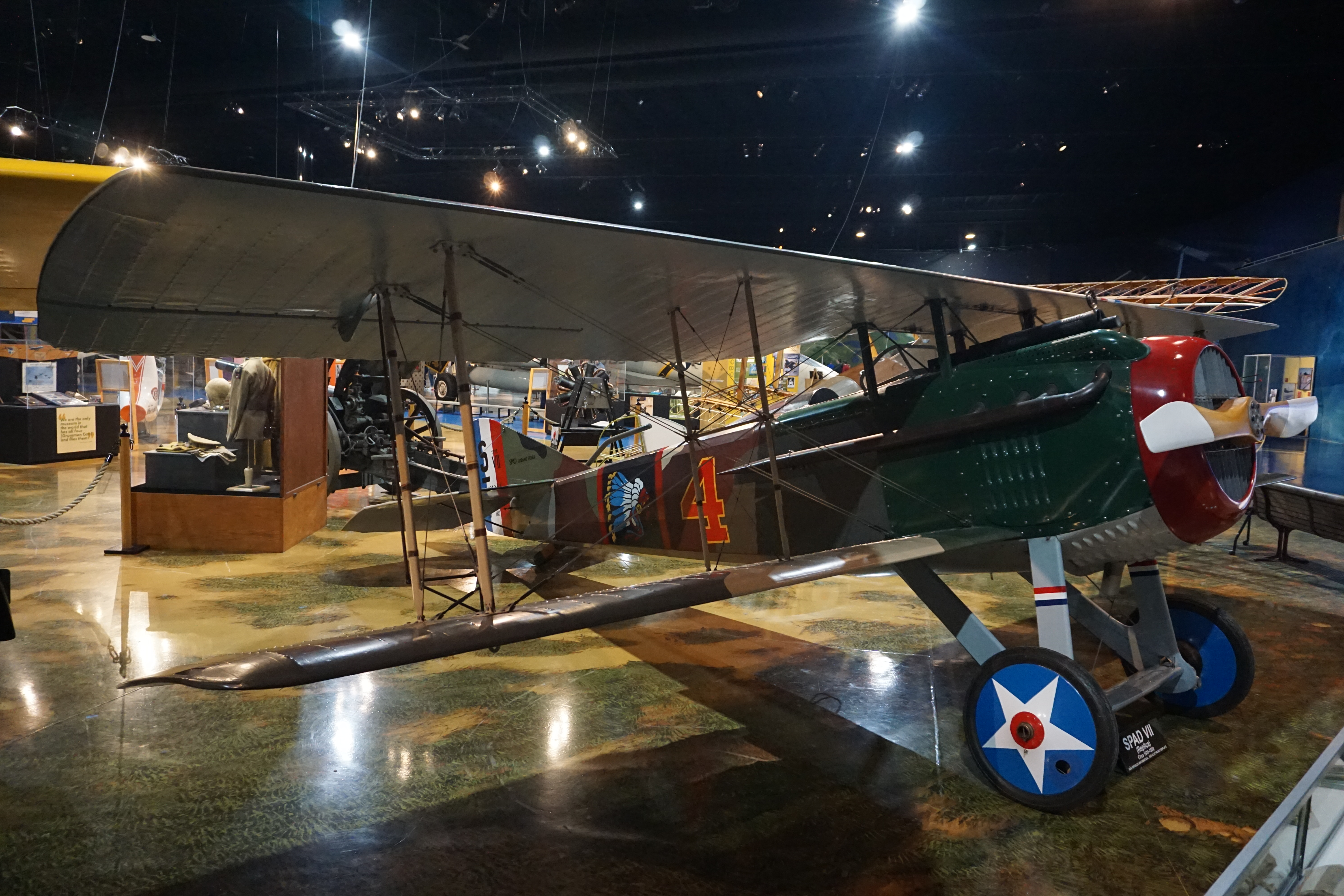 A SPAD VII replica on display at the Air Zoo at Kalamazoo/Battle Creek International Airport in Portage, Michigan (United States).